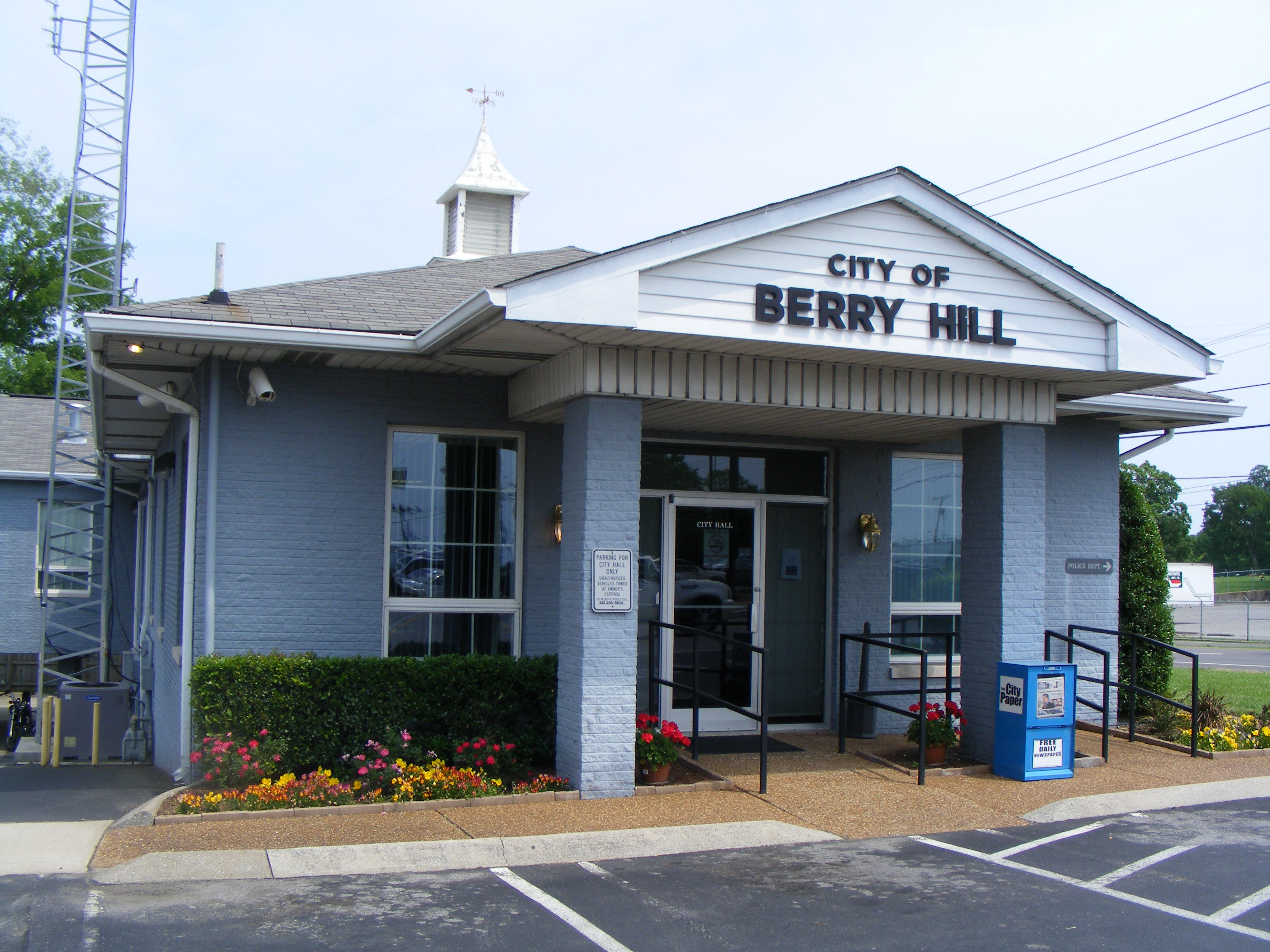 Berry Hill, Tennessee in Nashville, Tennessee.